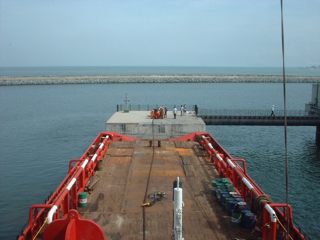 Anchor handling tug preparing for bollard pull test in Chenay (India)